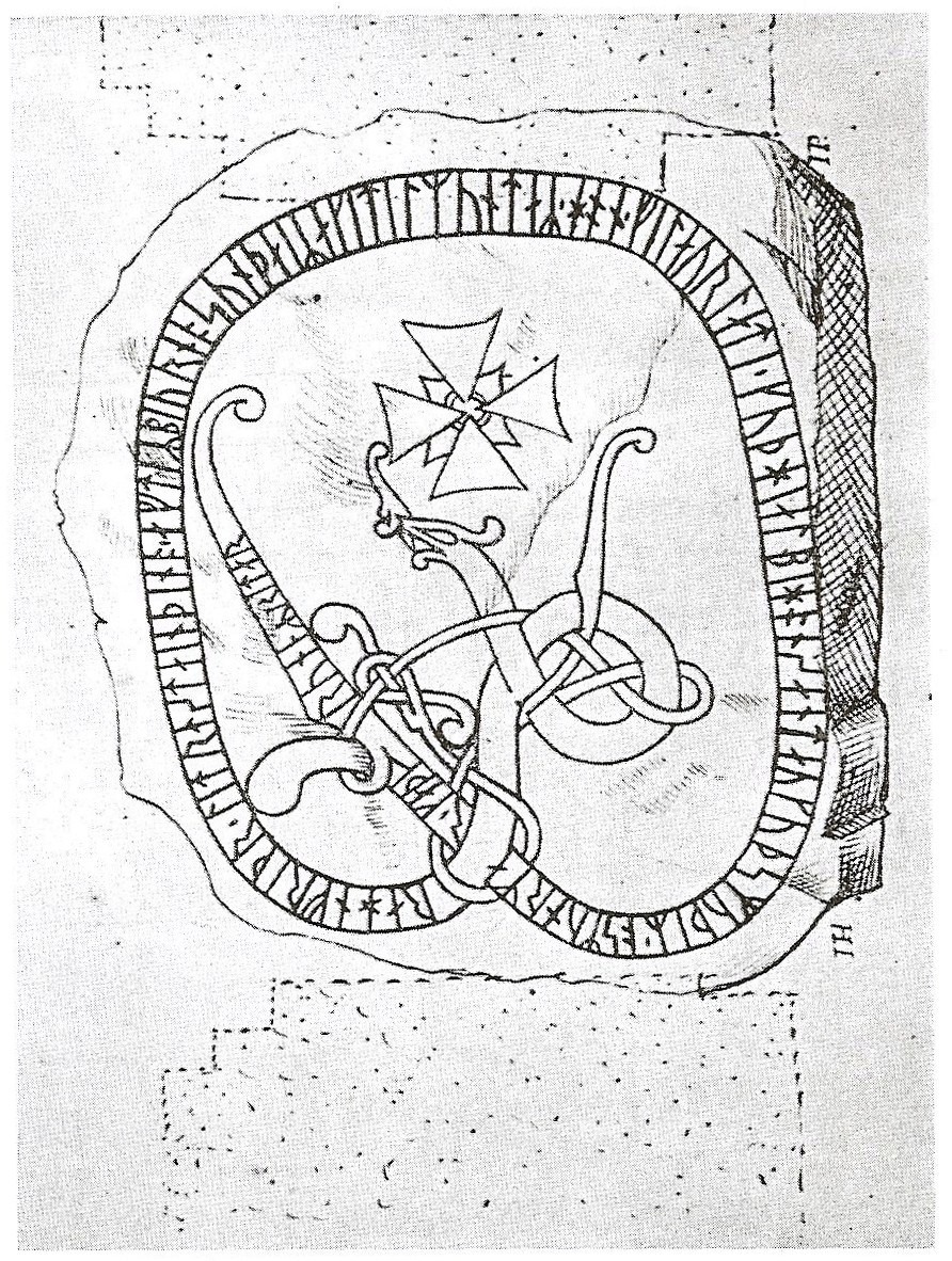 drawing of lost runestone U 346 in Frösunda kyrka, Vallentuna.